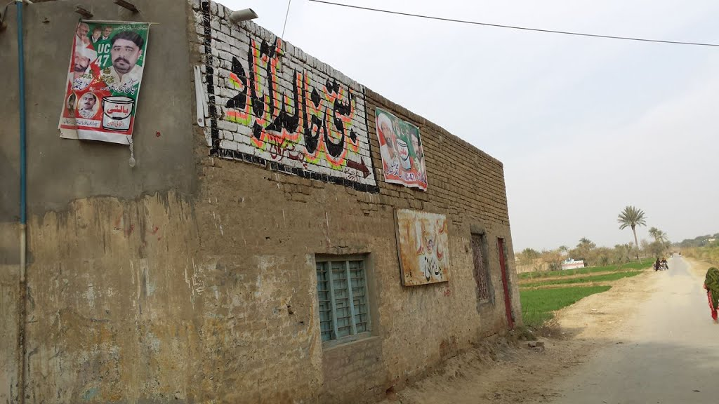 YOUNIS